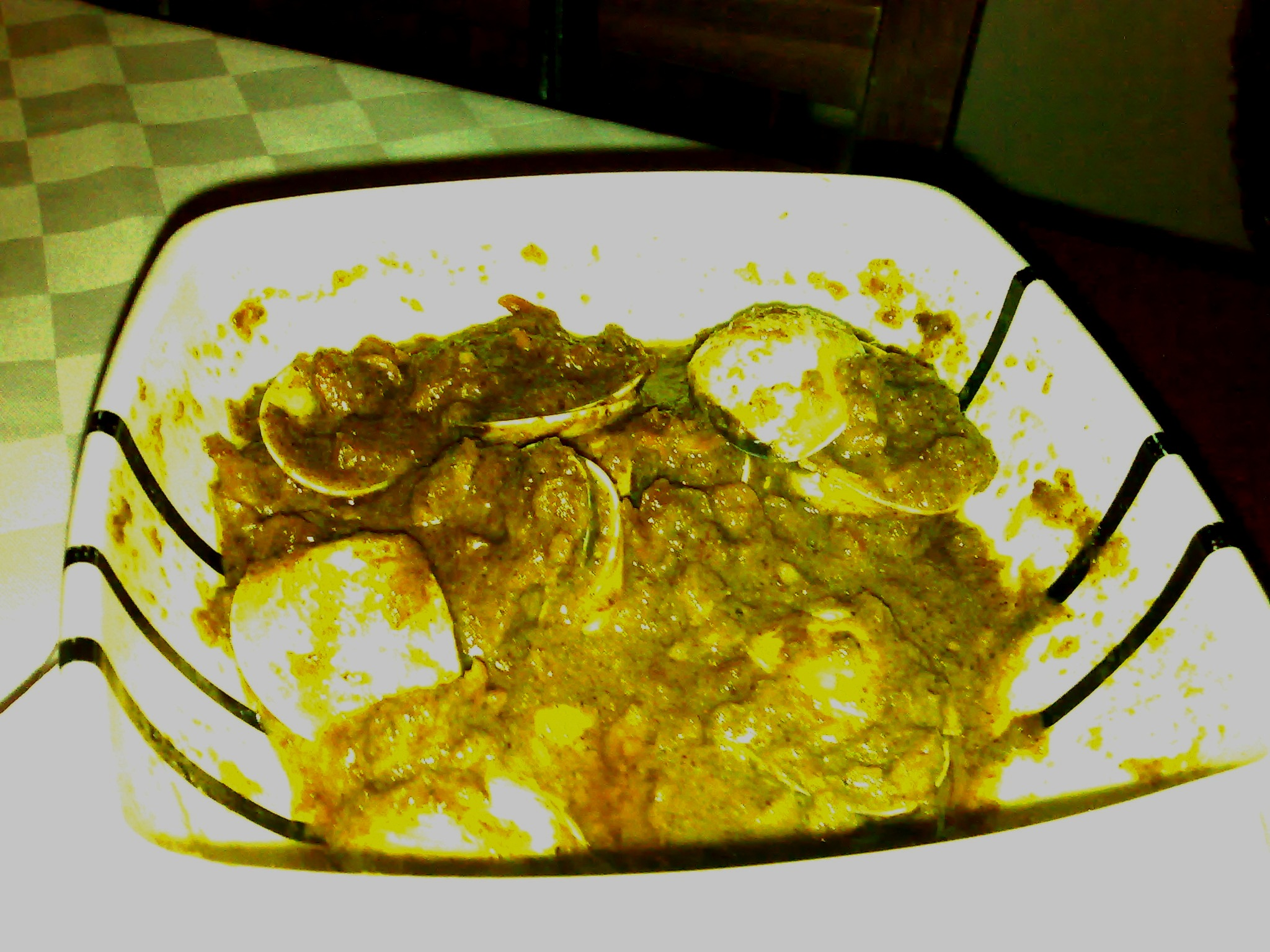 Suquém de amêijoa, a goan dish in Lisbon, Portugal.